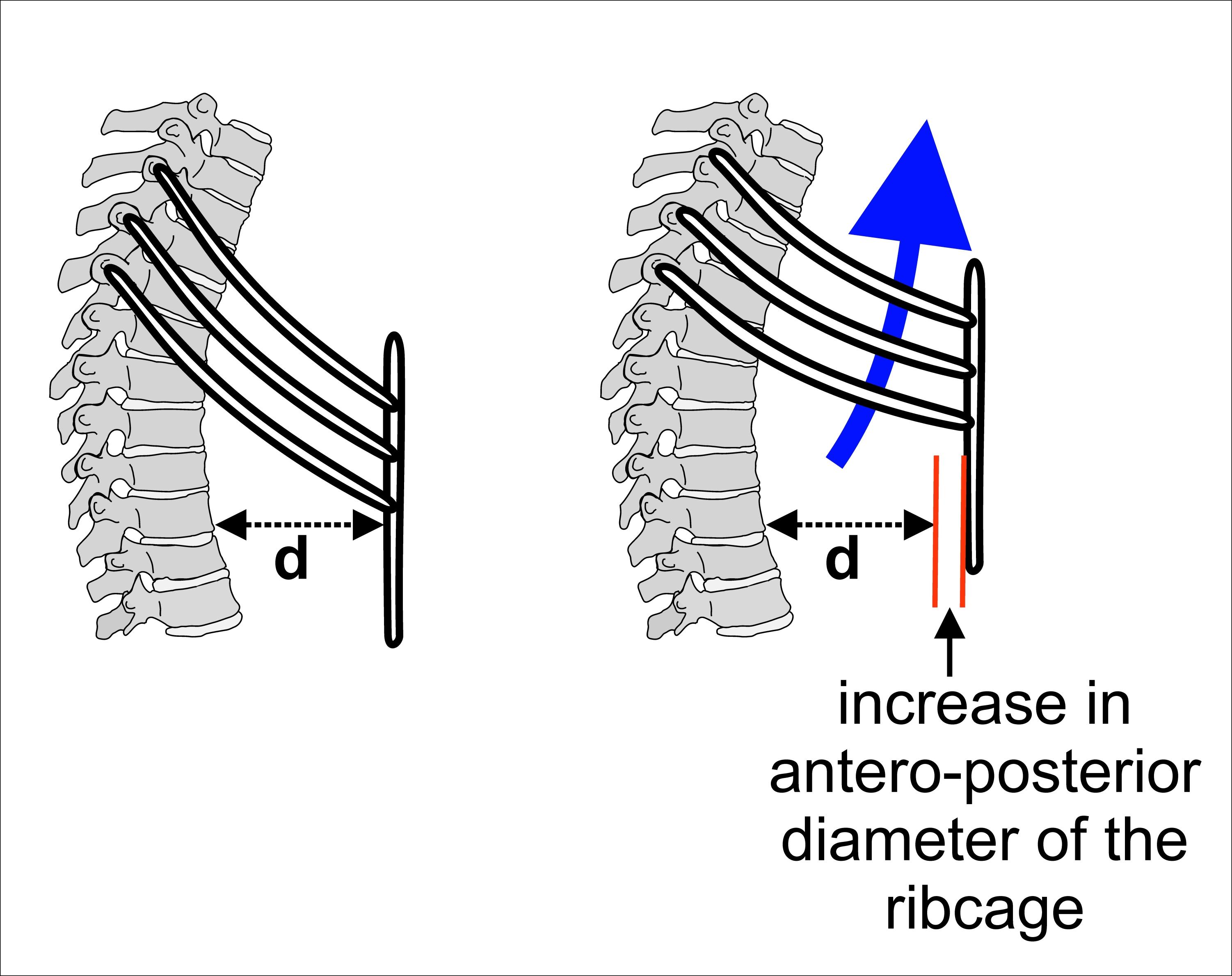 A diagrammatic illustration of how, when the rib cage is pulled upwards by the accessory muscles of inhalation, the antero-posterior diameter of the thoracic cage increases.